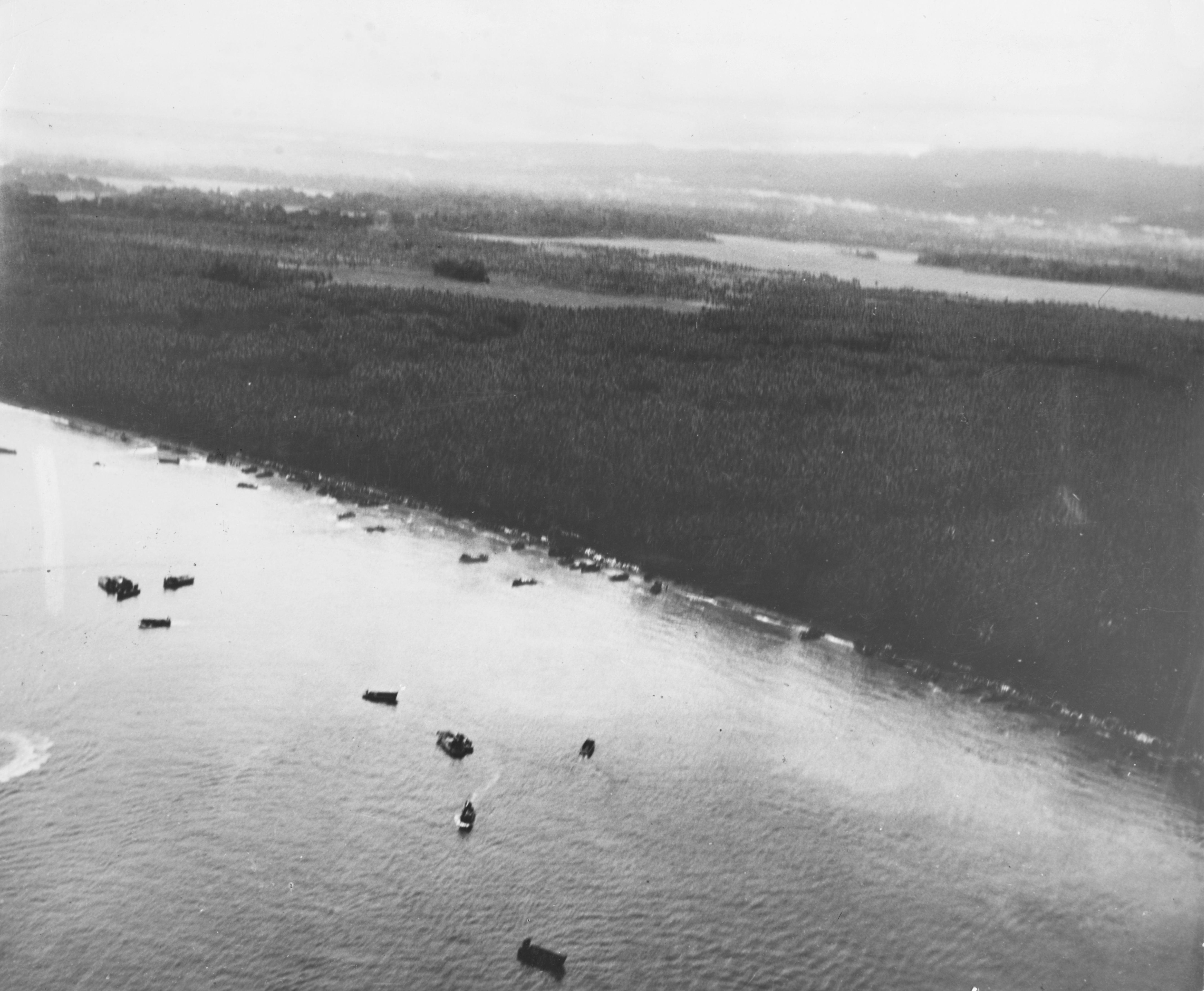 U.S. landing craft off Beach Red on Guadalcanal Island, circa 7-9 August 1942, when U.S. Marines came ashore to capture the Lunga Point area and its airfield from the Japanese. The airfield is out of view to the right.